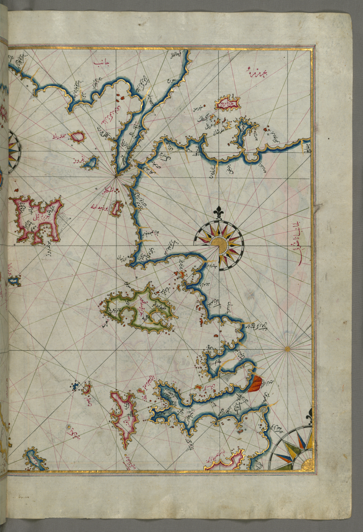 This folio from Walters manuscript W.658 contains a map of the sea of Marmara and the islands of the eastern Aegean Sea from Semendrek (Samothraki) as far as Chios (Sakiz, Saqiz).